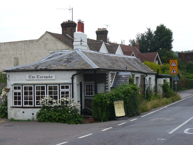 The Turnpike Old turnpike cottage on the eastern end of Houghton Bridge where tolls would have been collected from passing travellers. Today it still takes money from travellers!